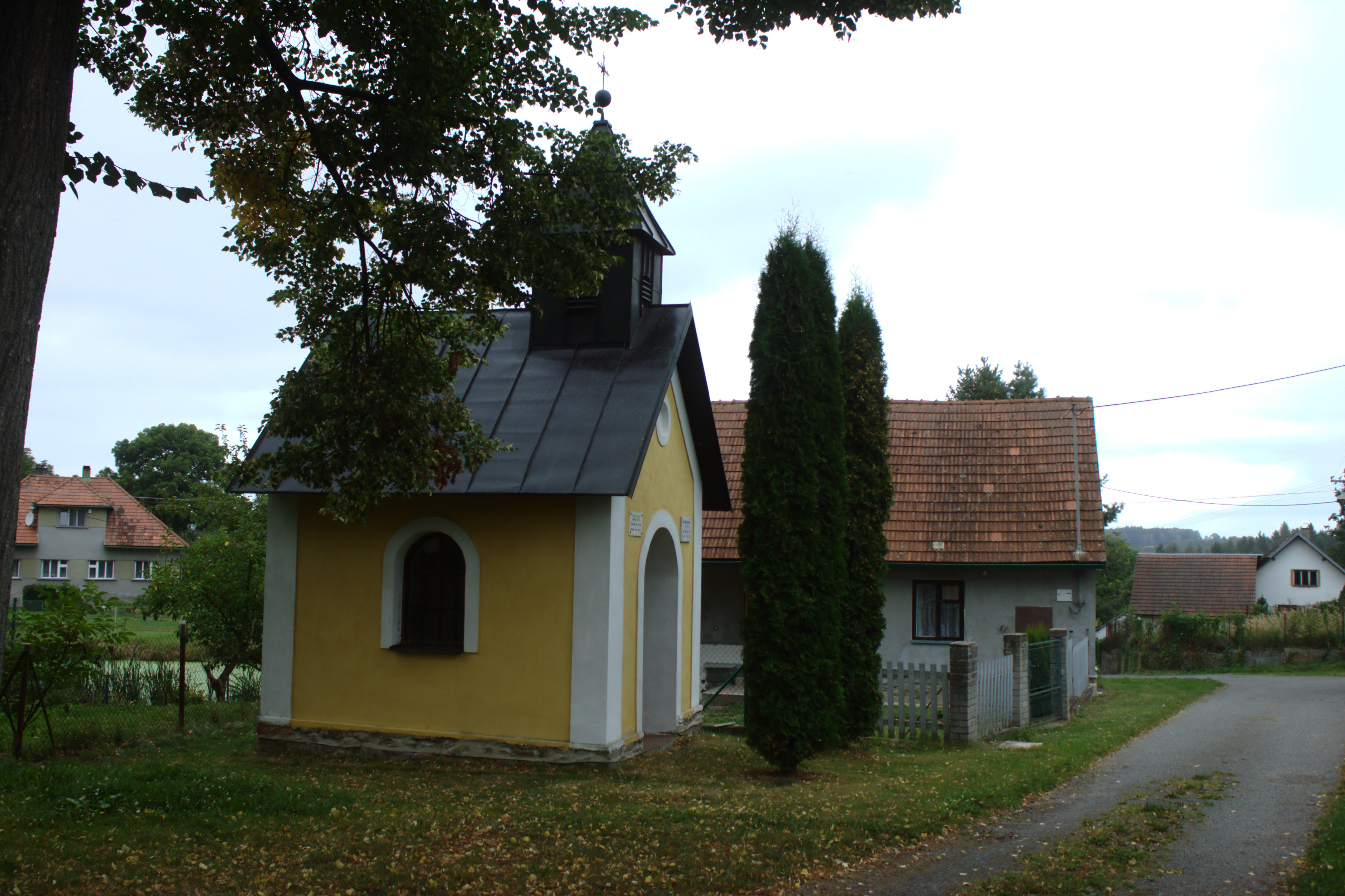 A chapel in the village of Kramolín, Vysočina Region, CZ